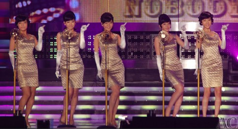 Wonder Girls performing "Nobody" in 2008-cropped